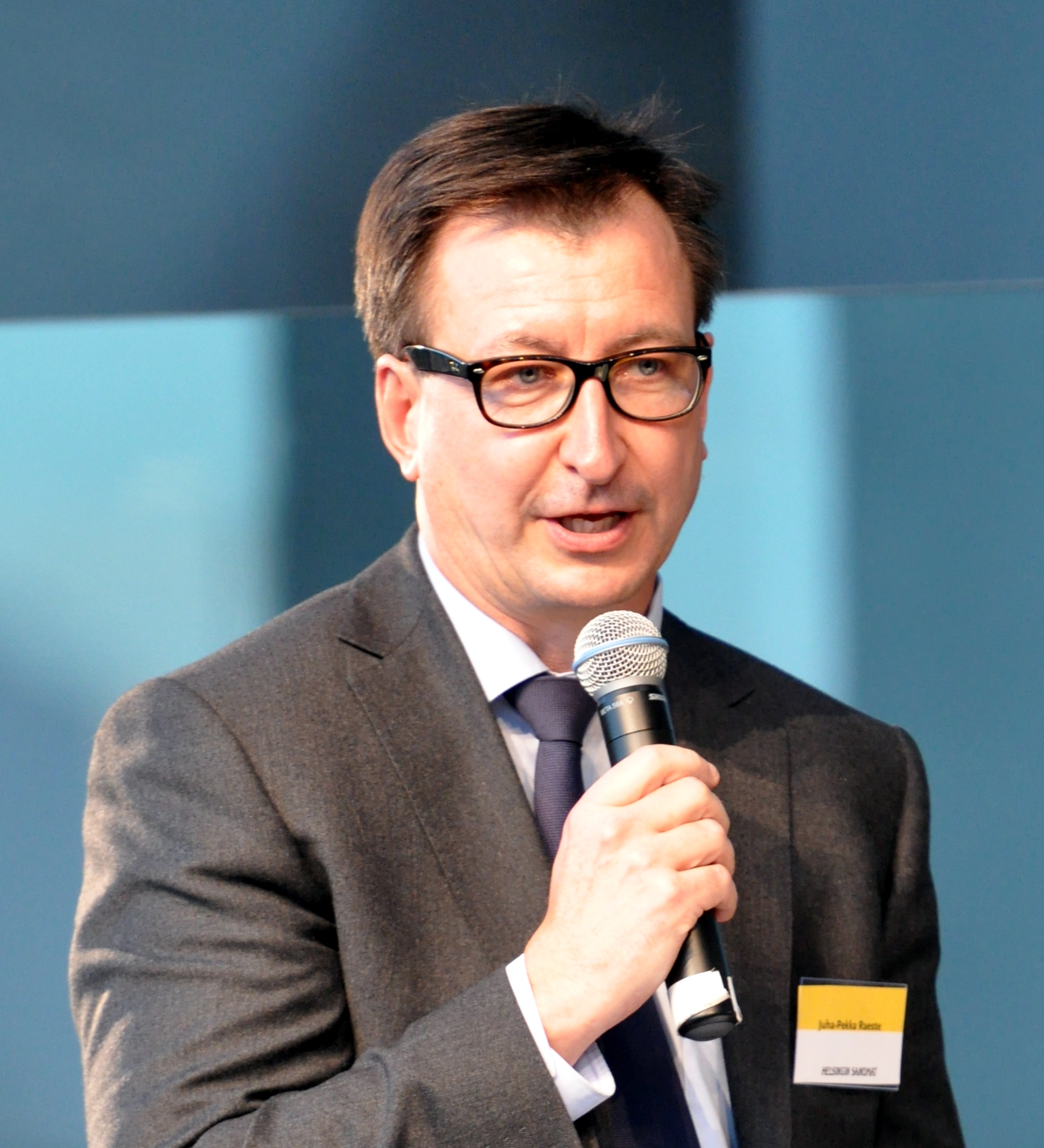 Juha-Pekka Raeste is a Finnish journalist.